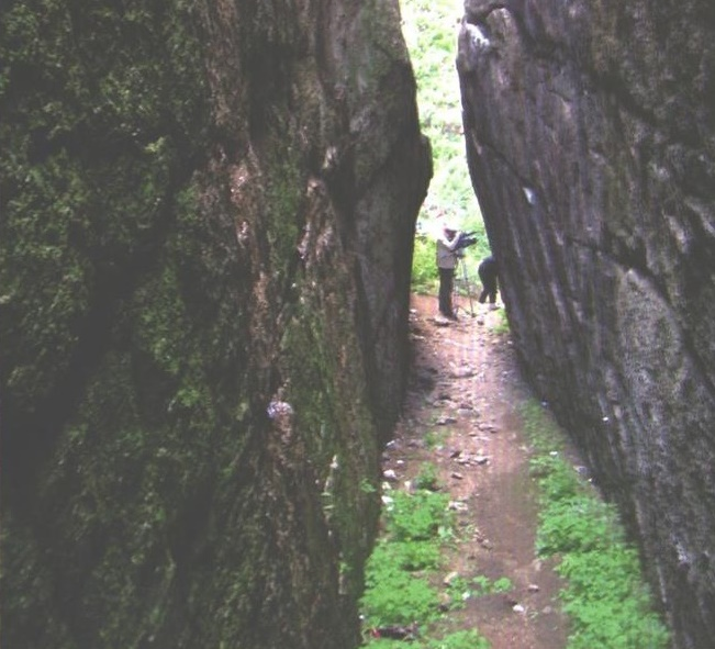 Kezhege